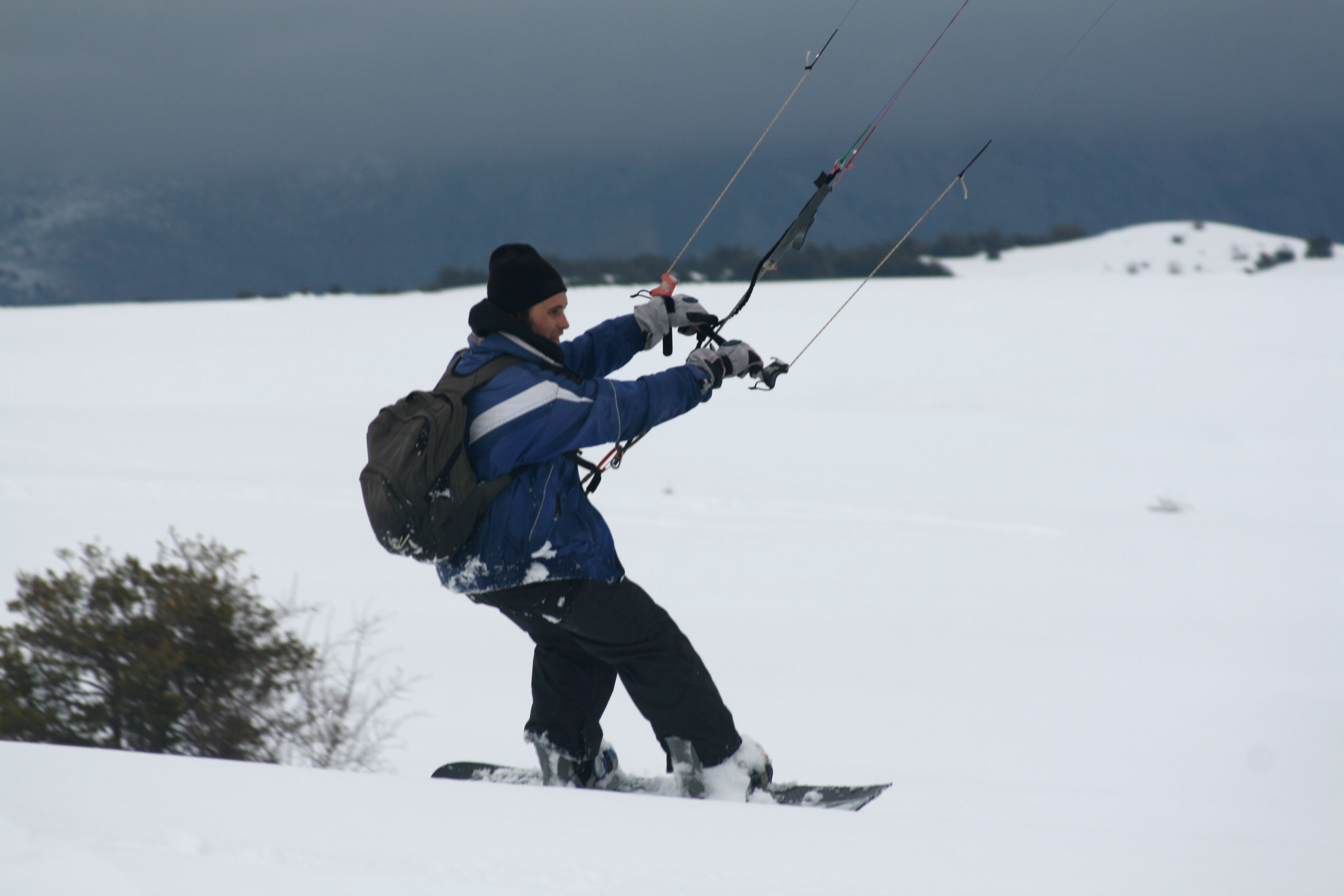 Snowkiter on Calern Plateau, near Caussols (France)